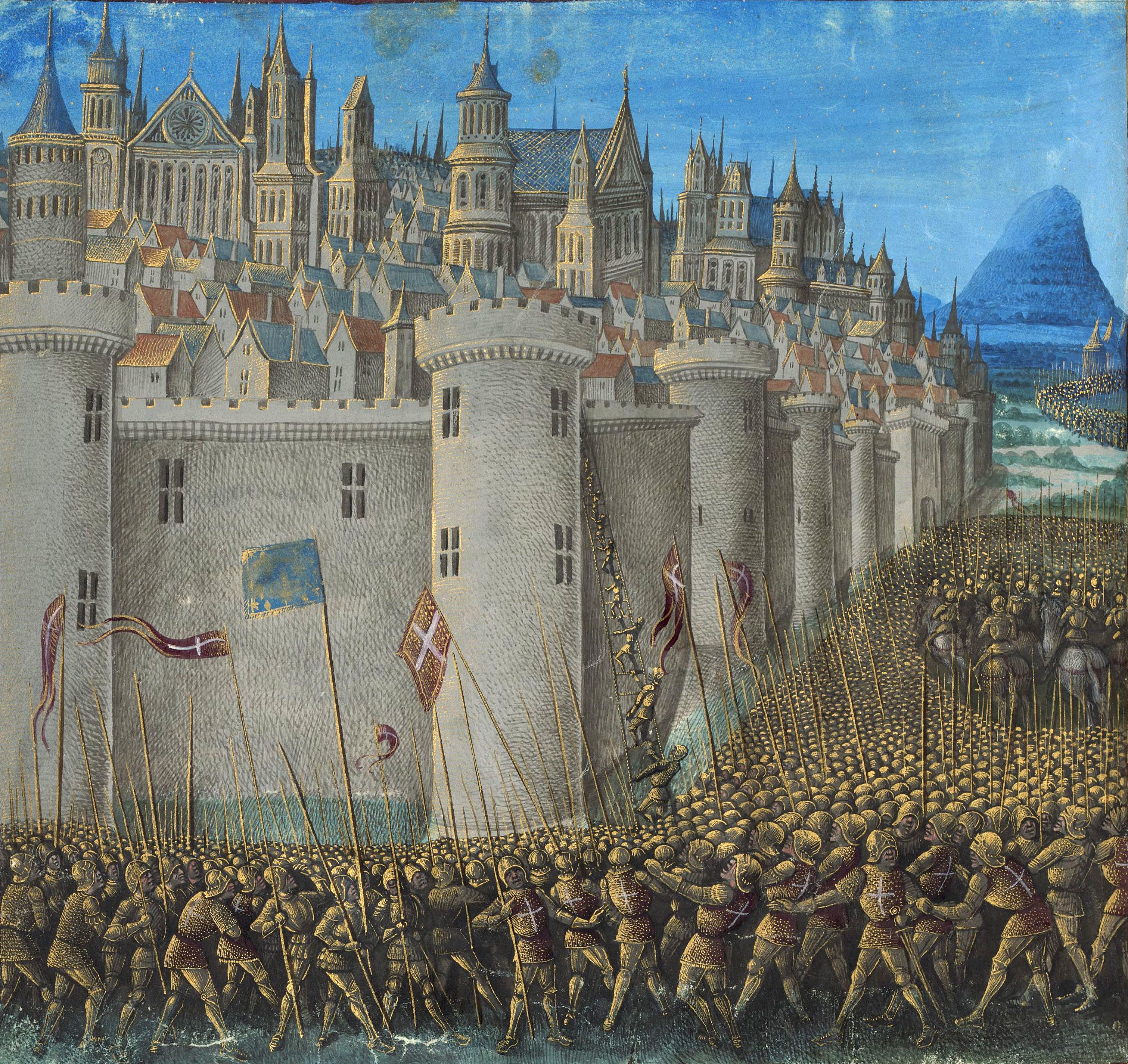 Detail of a medieval miniature of the Siege of Antioch from Sébastien Mamerot's Les Passages d'Outremer